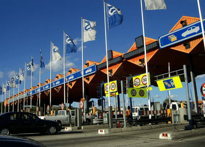 Toll Gate, near Granollers, Spain